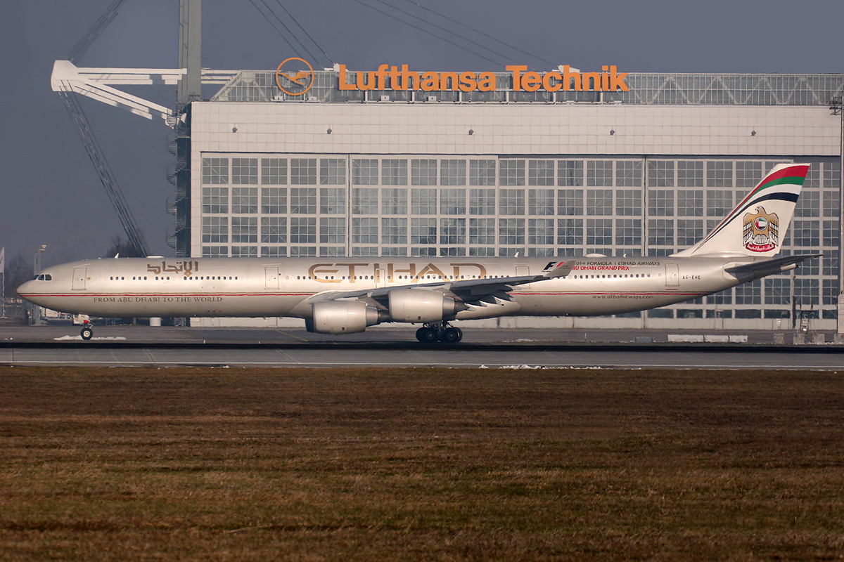 Munich (EDDM/MUC) Airport